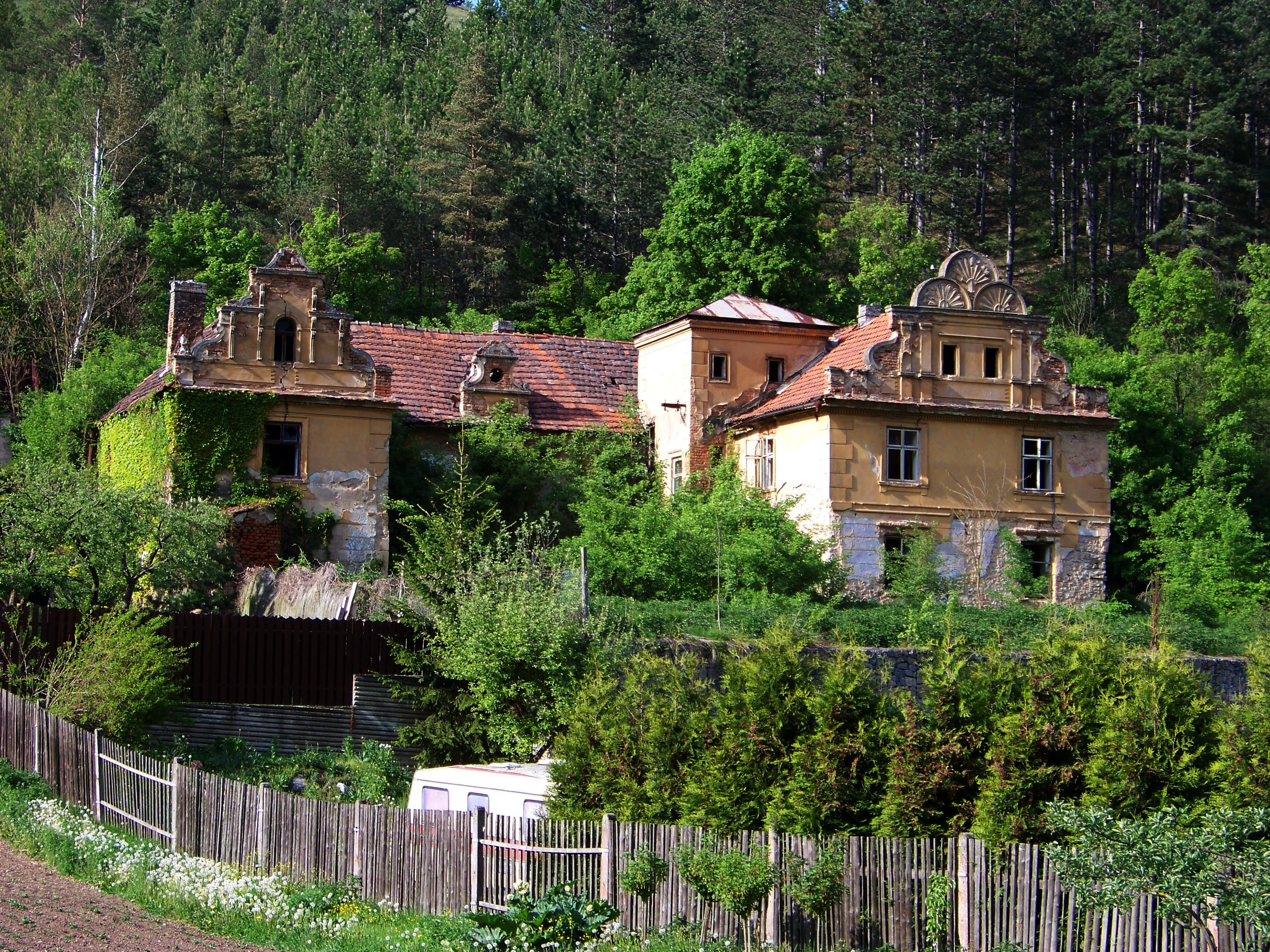 Prague-Radotín, the Czech Republic. Cikánka.